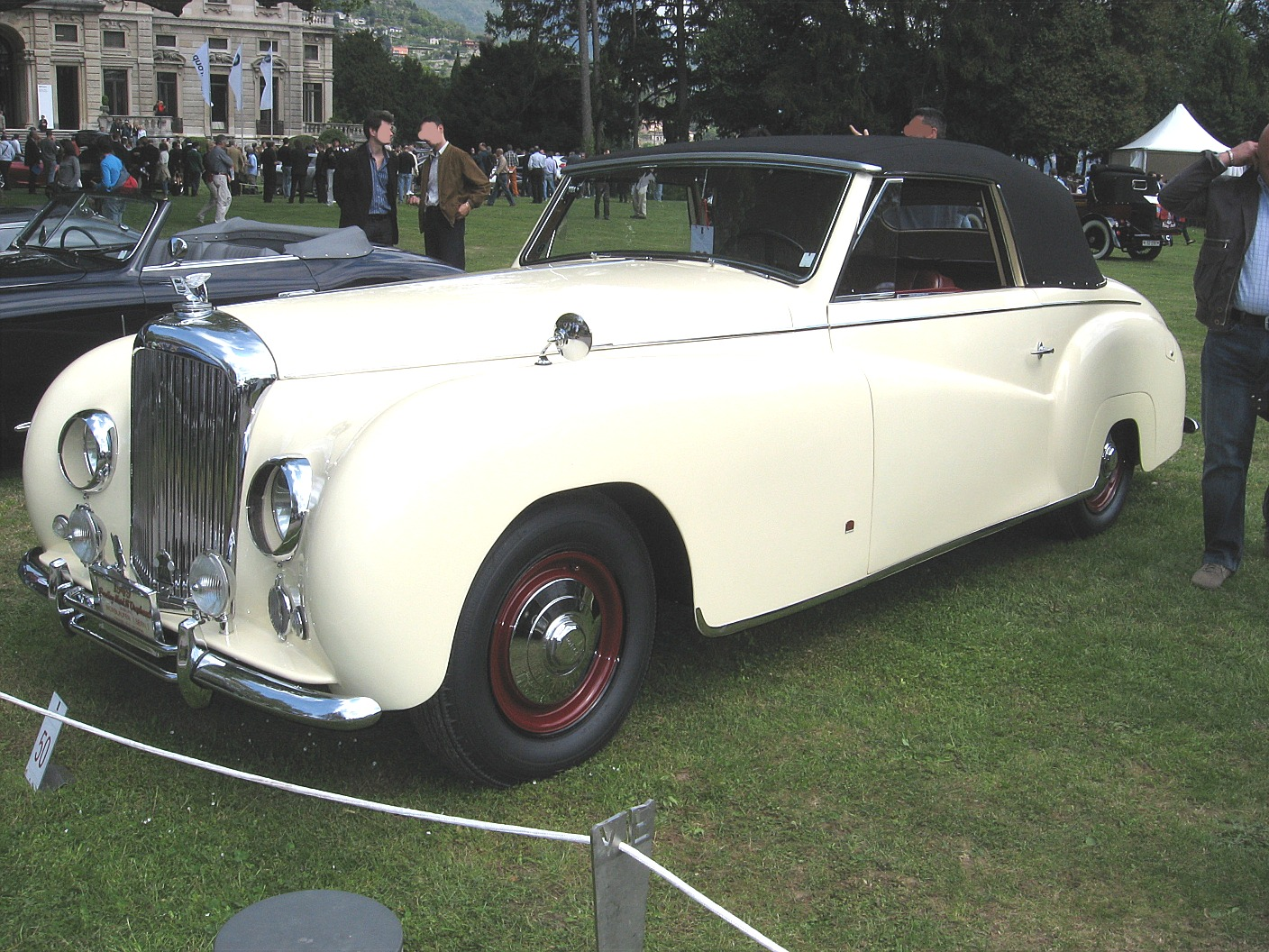 Subject:Bentley Mark VI, coachbuilding by Ramseier Brothers Date:April 27th, 2008 Event:Concorso d’Eleganza”Villa d’Este” 2008 Place/Country: Cernobbio (CO), Italy I release all rights in the public domain.